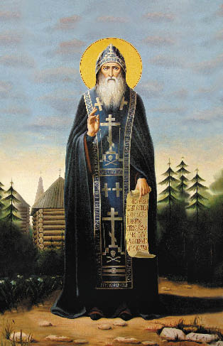 Mefodiy Pochaevsliy